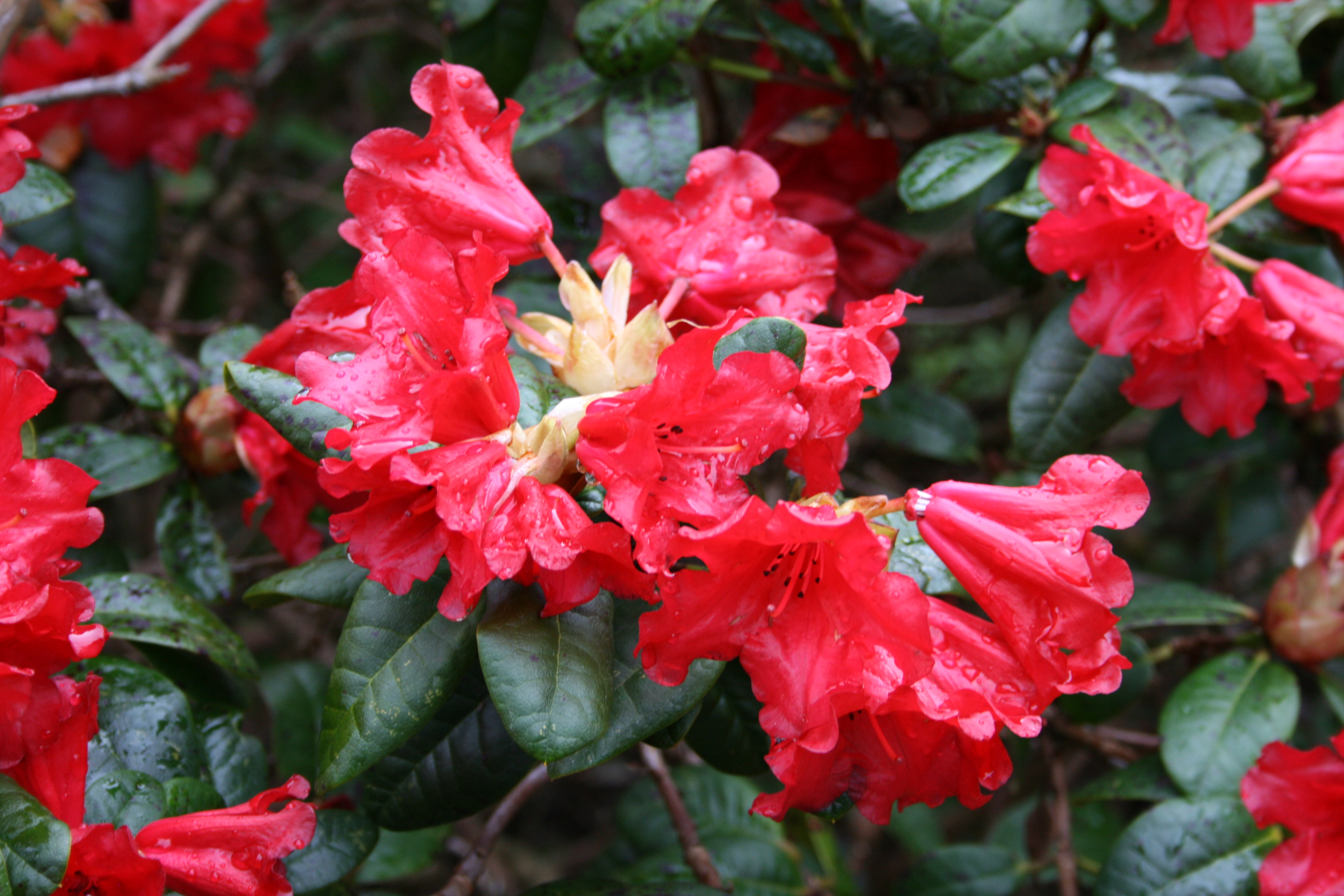 Rhododendron 'Scarlet Wonder'